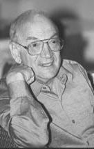 Chess player Viktor Korchnoi.